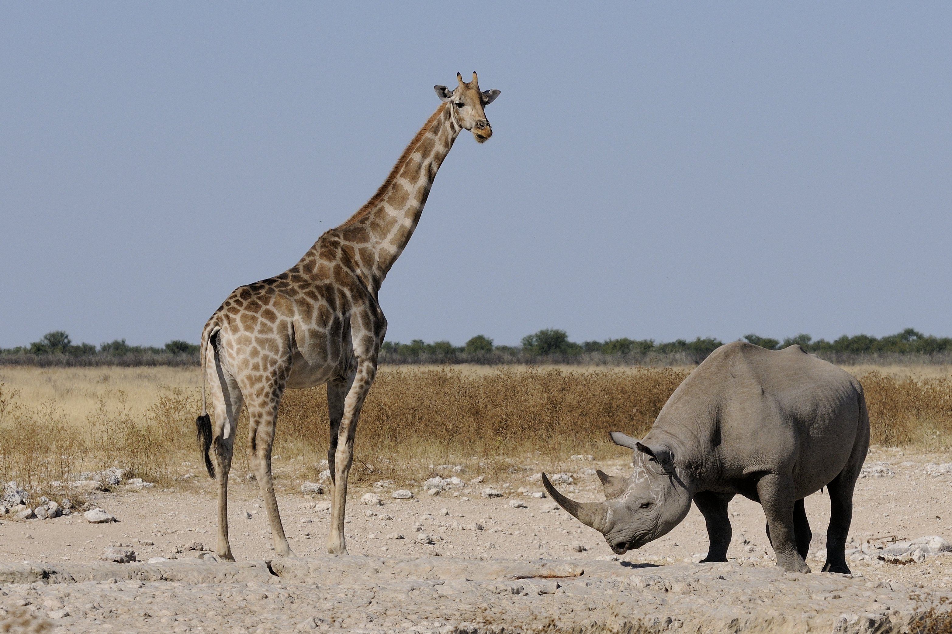 Meeting between black rhinoceros (Diceros bicornis) and giraffe (Giraffa camelopardalis), Gemsbokvlakte, Etosha/Namibia